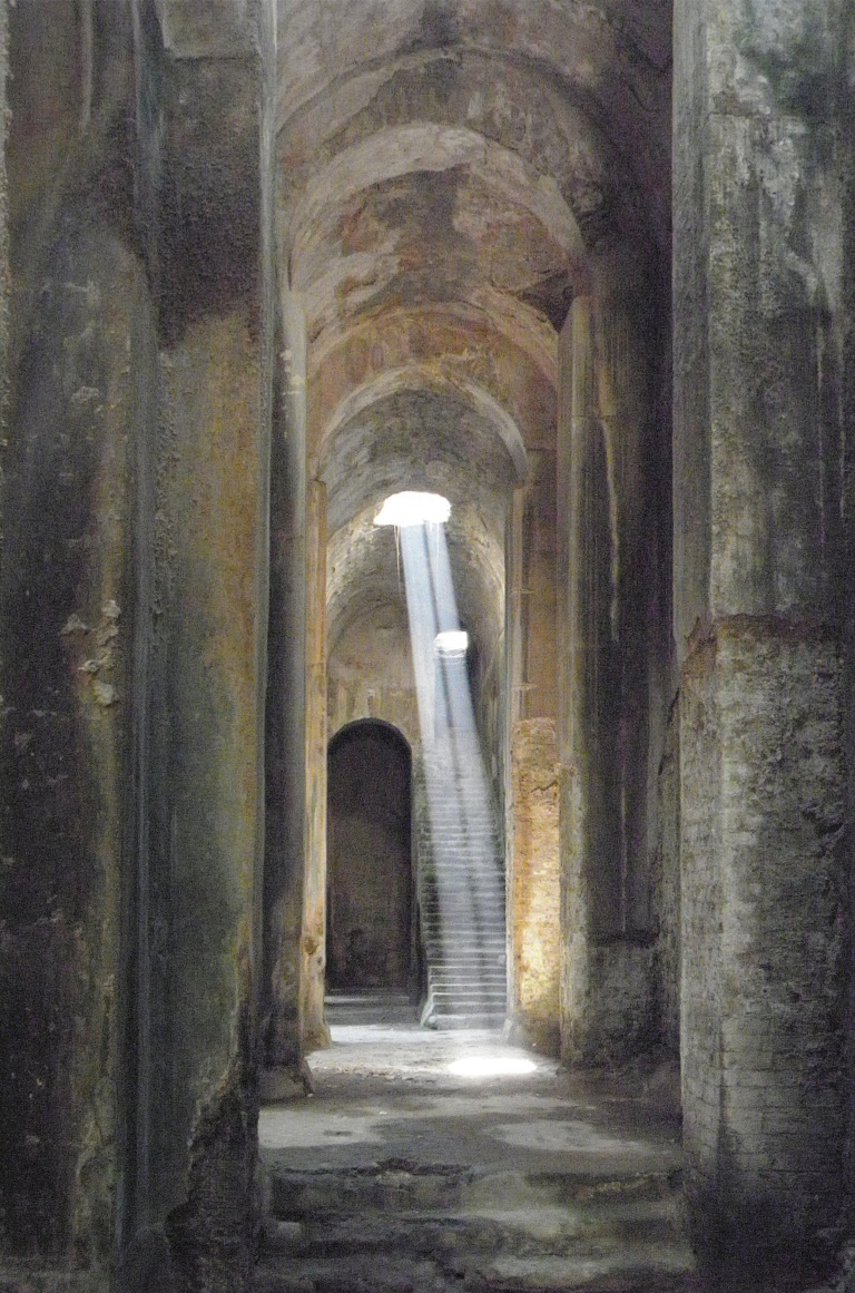 Baja